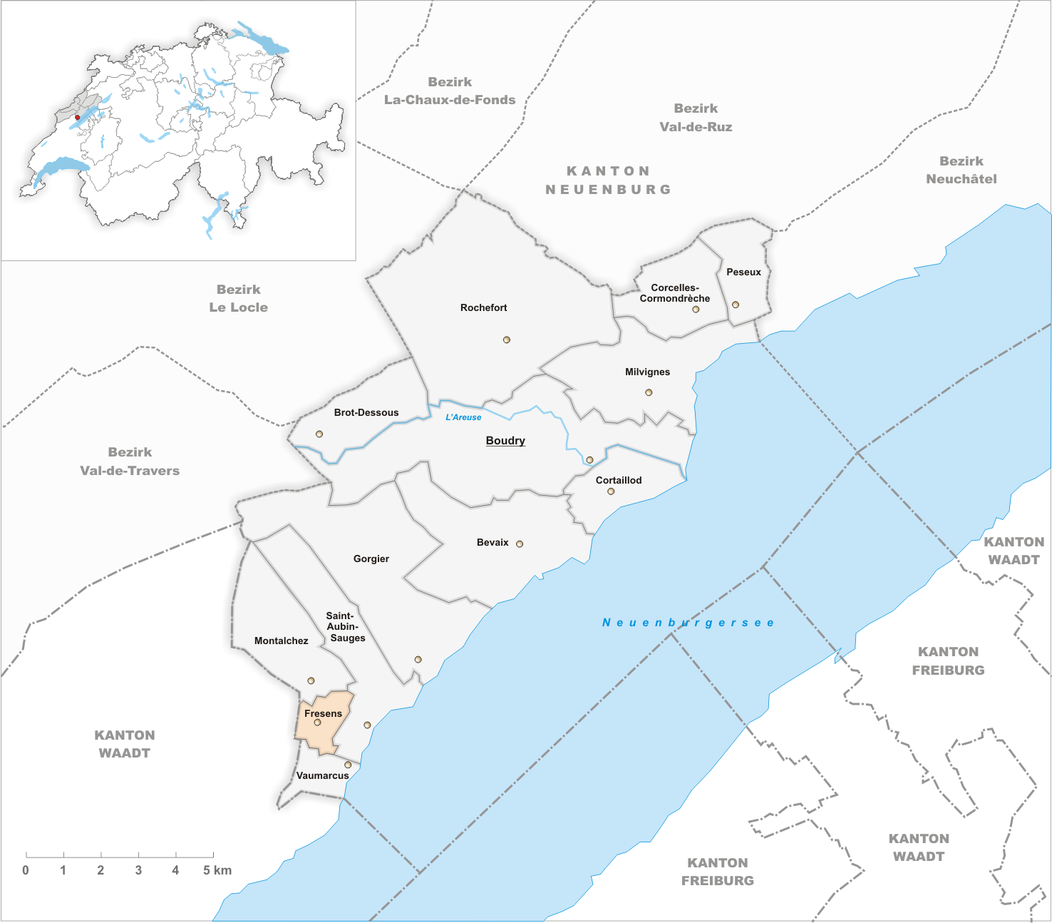 Municipality Fresens